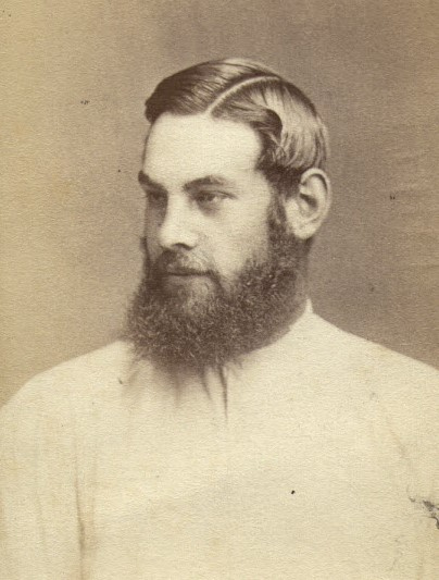 W. G. Grace photographed by Elliott and Fry in 1872.